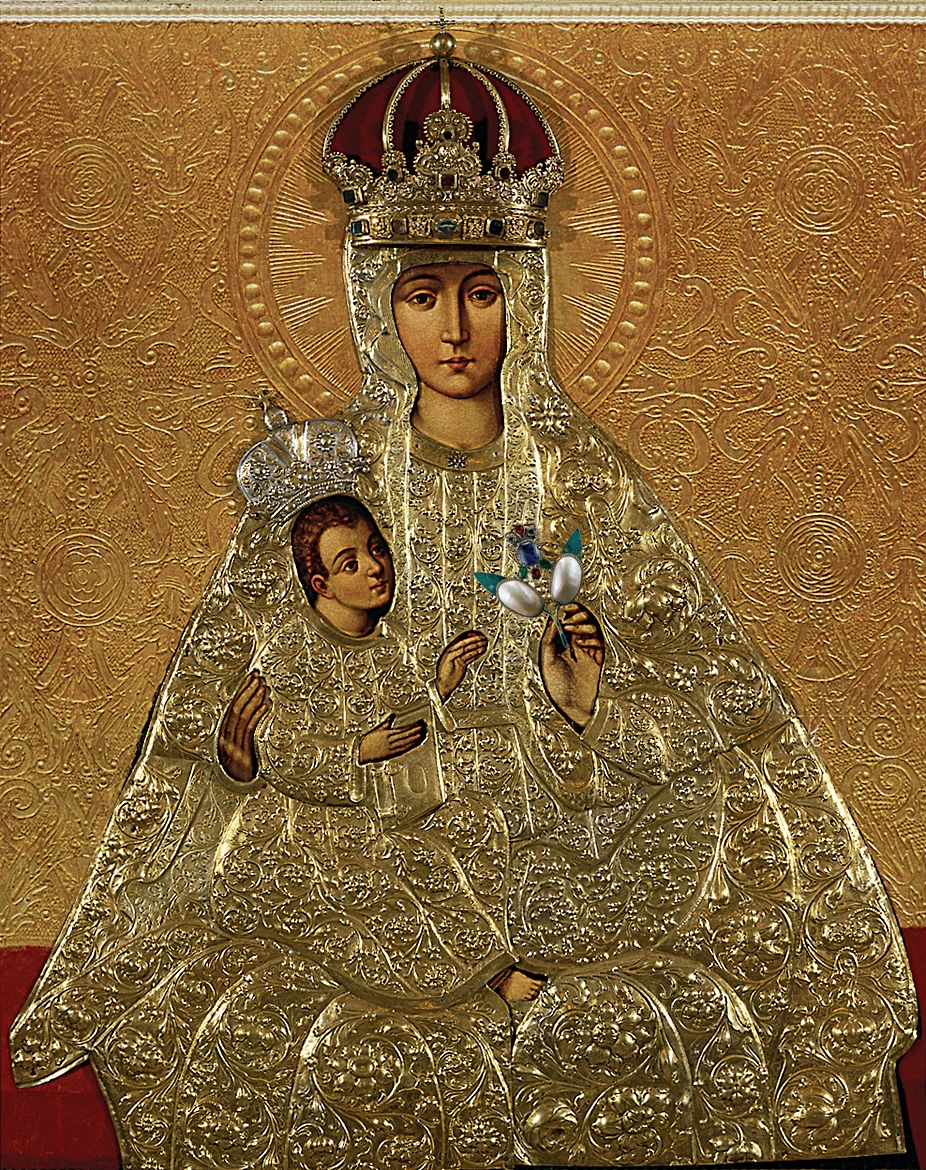 The Mother of God of Trakai Unknown 127,7 cm x 110,3 cm